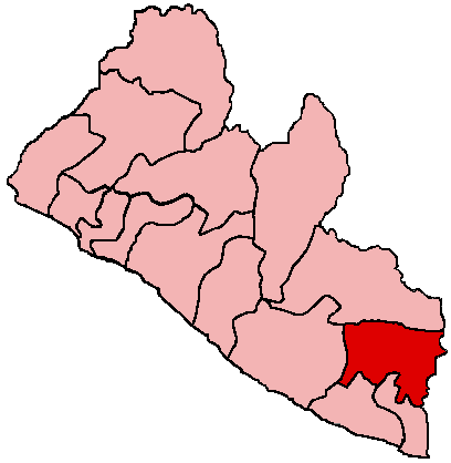 Map of Liberia showing River Gee County; created with the GIMP. Made by User:Acntx.